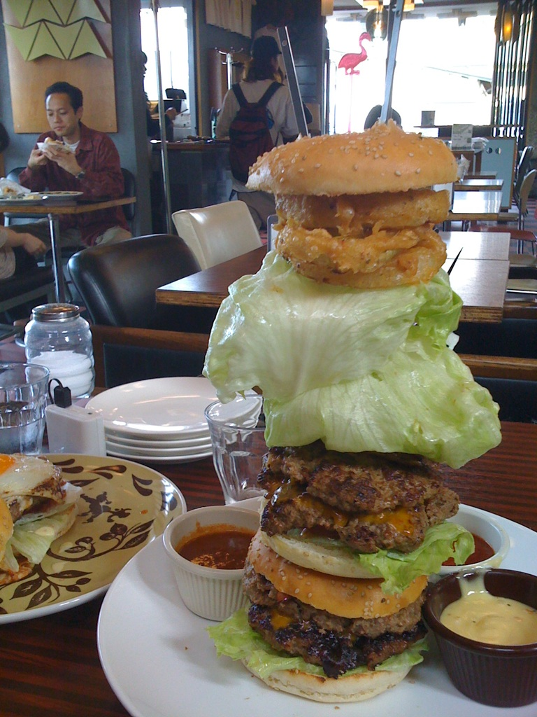 Uploaded with AirMe